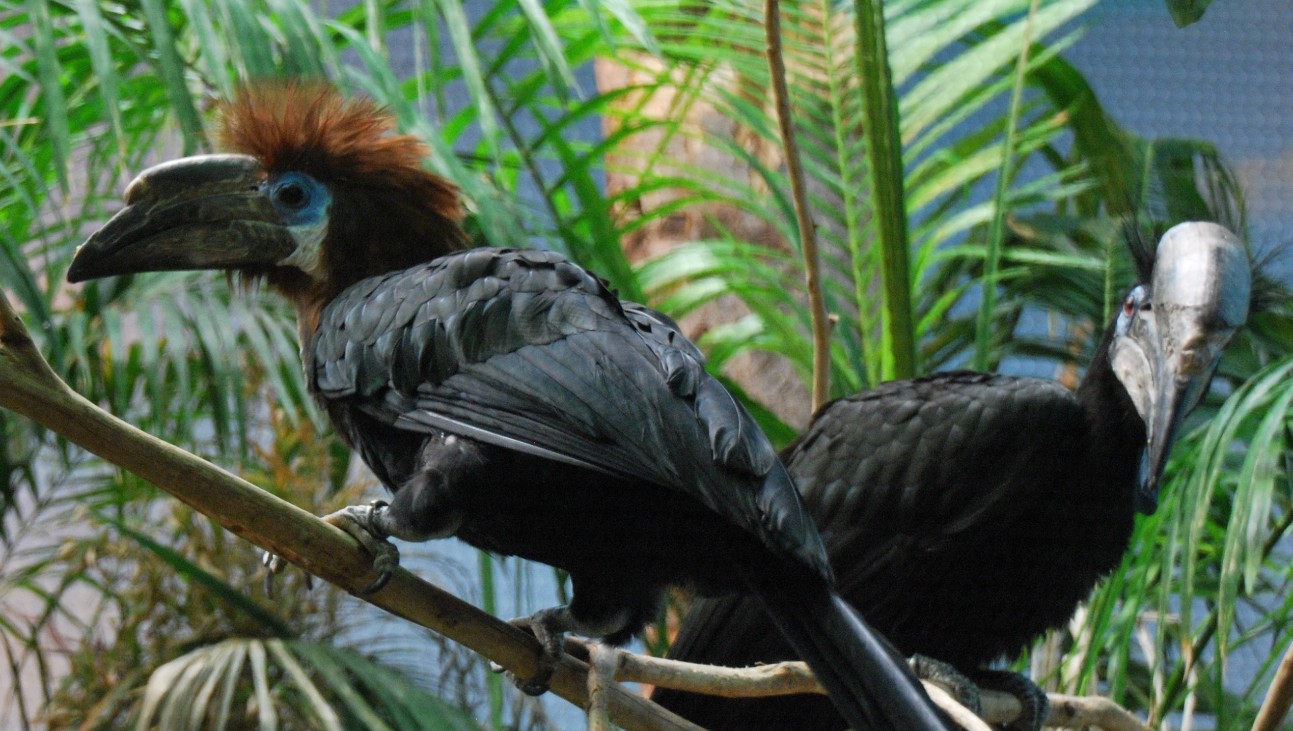 A pair of Black-casqued Hornbills at Cincinnati Zoo, USA. Female on left and male on right.